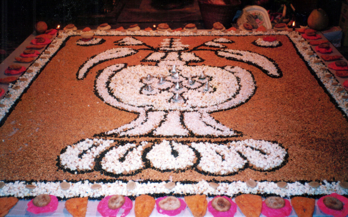 Halimali, a picture of a sacred jar made of wheat, popcorn and black soyabean is displayed at Asan to mark the end of the hymn singing festival.